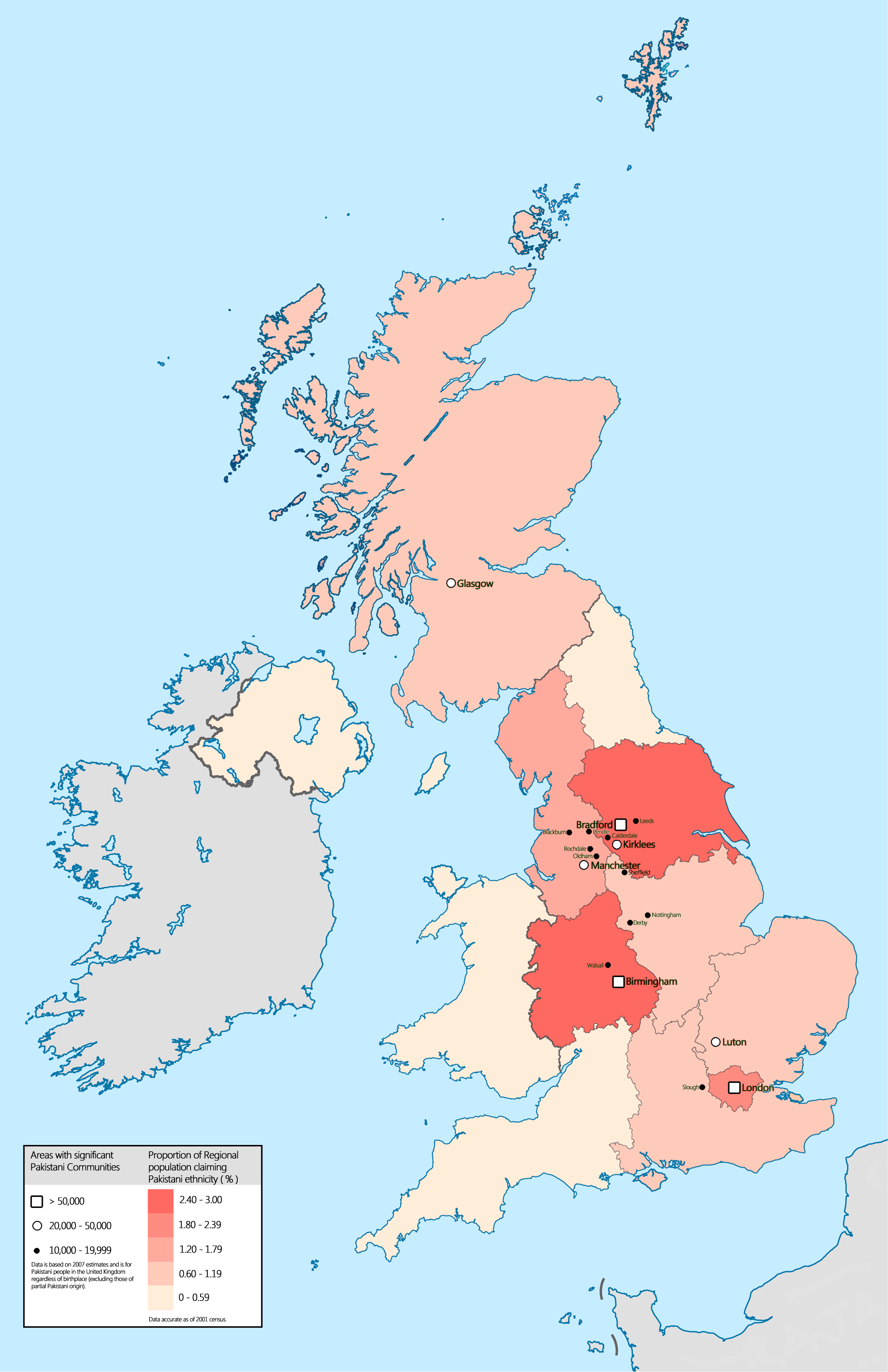 A map showing the percentage of British people of Pakistani descent by region, and locations of Pakistani communities of more than 20,000 people in the UK.